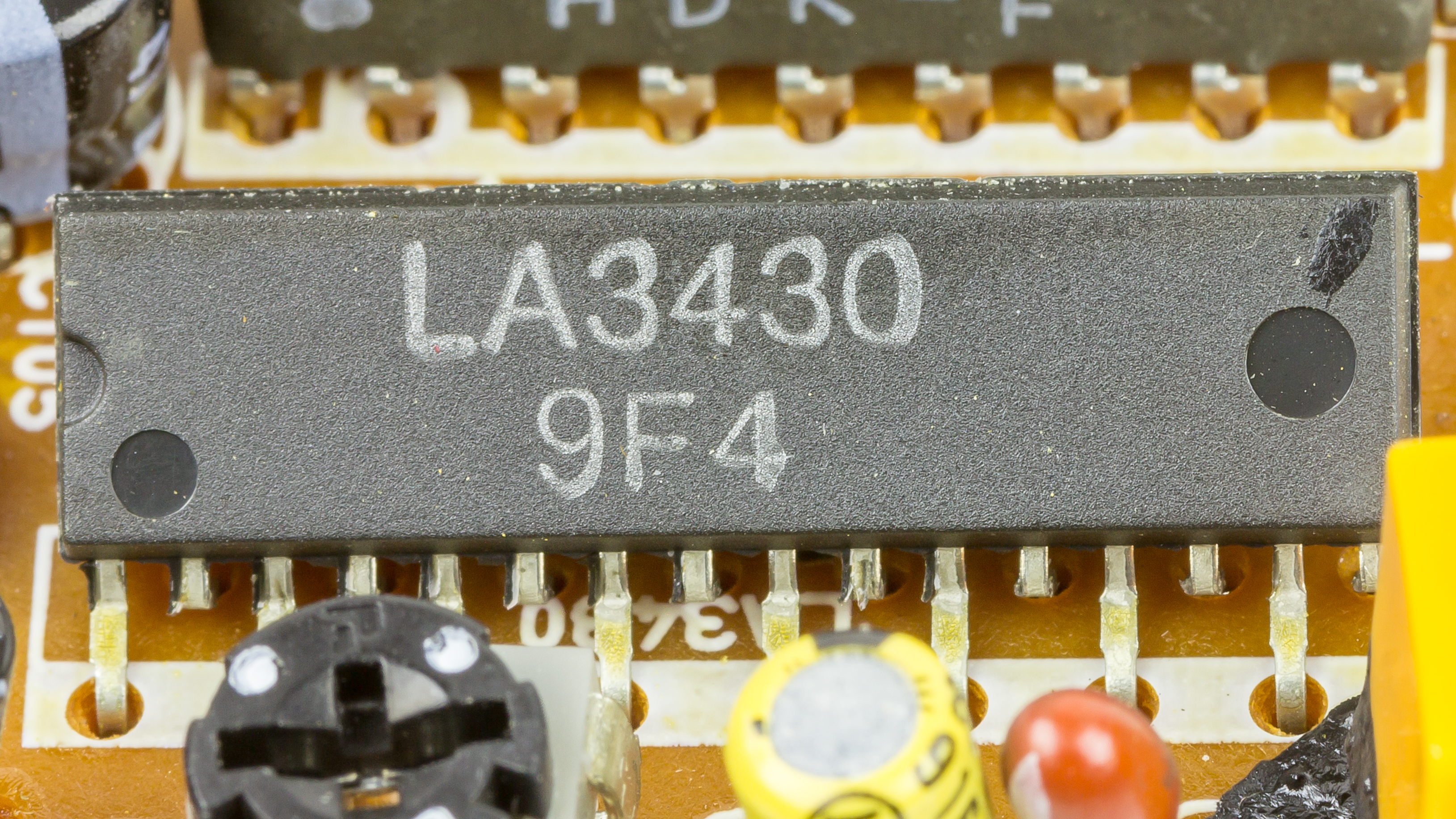 Pioneer KE-2090SDK - Sanyo LA3430 - PLL FM MPX Stereo Demodulator with Pilot Canceler for Car Stereo Use. Package: SIP16Z